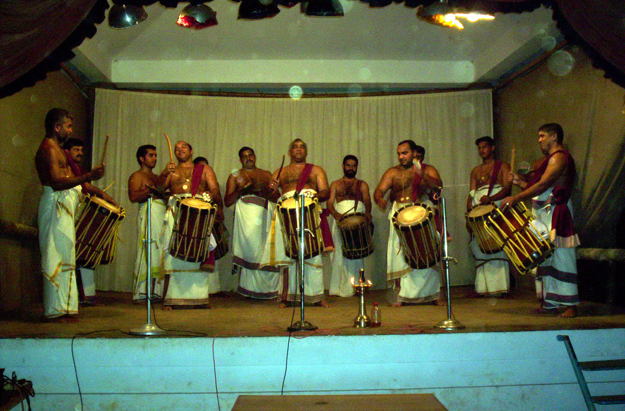 Tripple thayampaka by Mattannoor Sankarankutty Marar and his sons at Puthiyakavu temple, Chirakkal, Azhikode